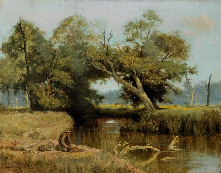 Landscape with Swagman (also known as The swagman's camp by a billabong), painting by Gordon Coutts, oil on canvas, 35.6 x 45.7 cm stretcher; 55.0 x 65.2 x 7.7 cm frame : 0 - Whole; 35 x 45 cm